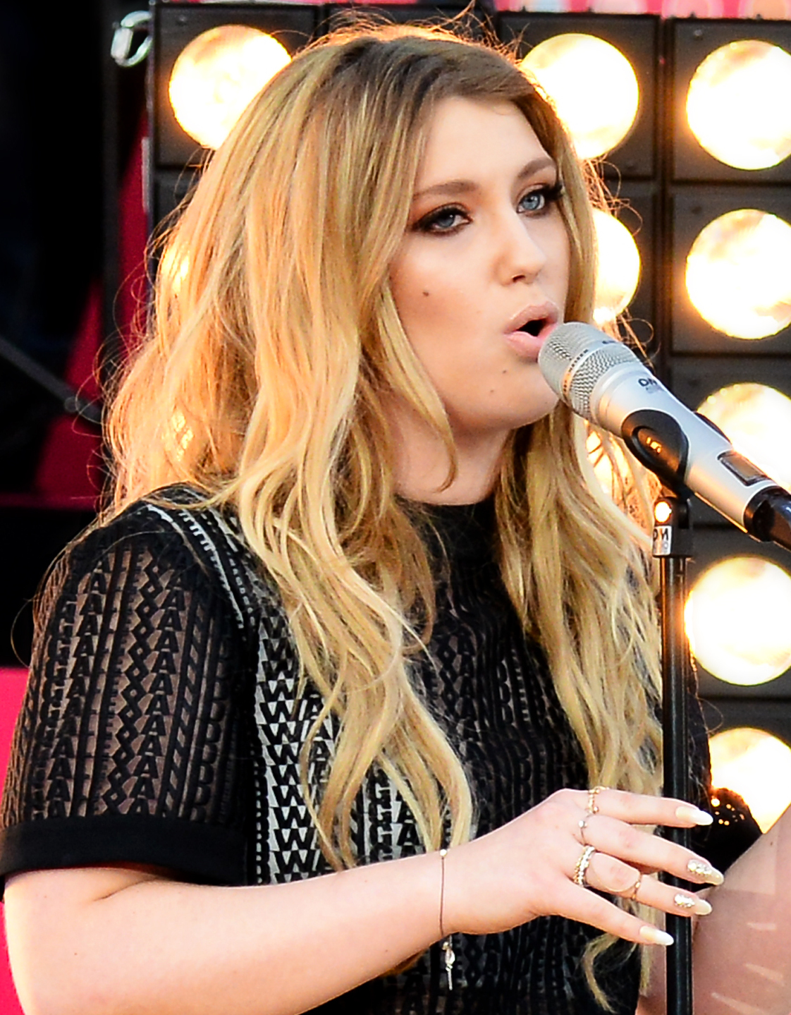 Ella Henderson visit Sommarkrysset at Gröna Lund in Stockholm